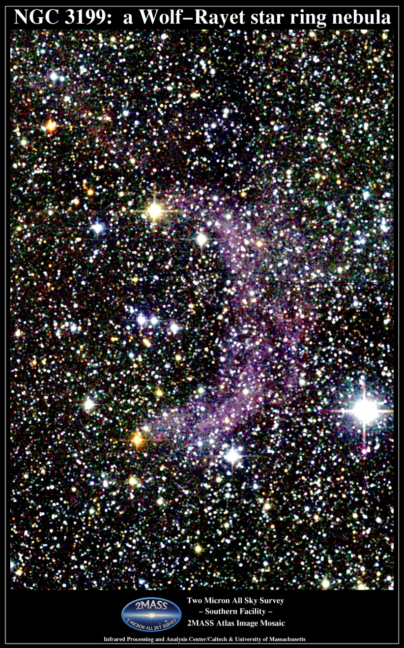 NGC 3199, an emission nebula in the constellation of Carina.